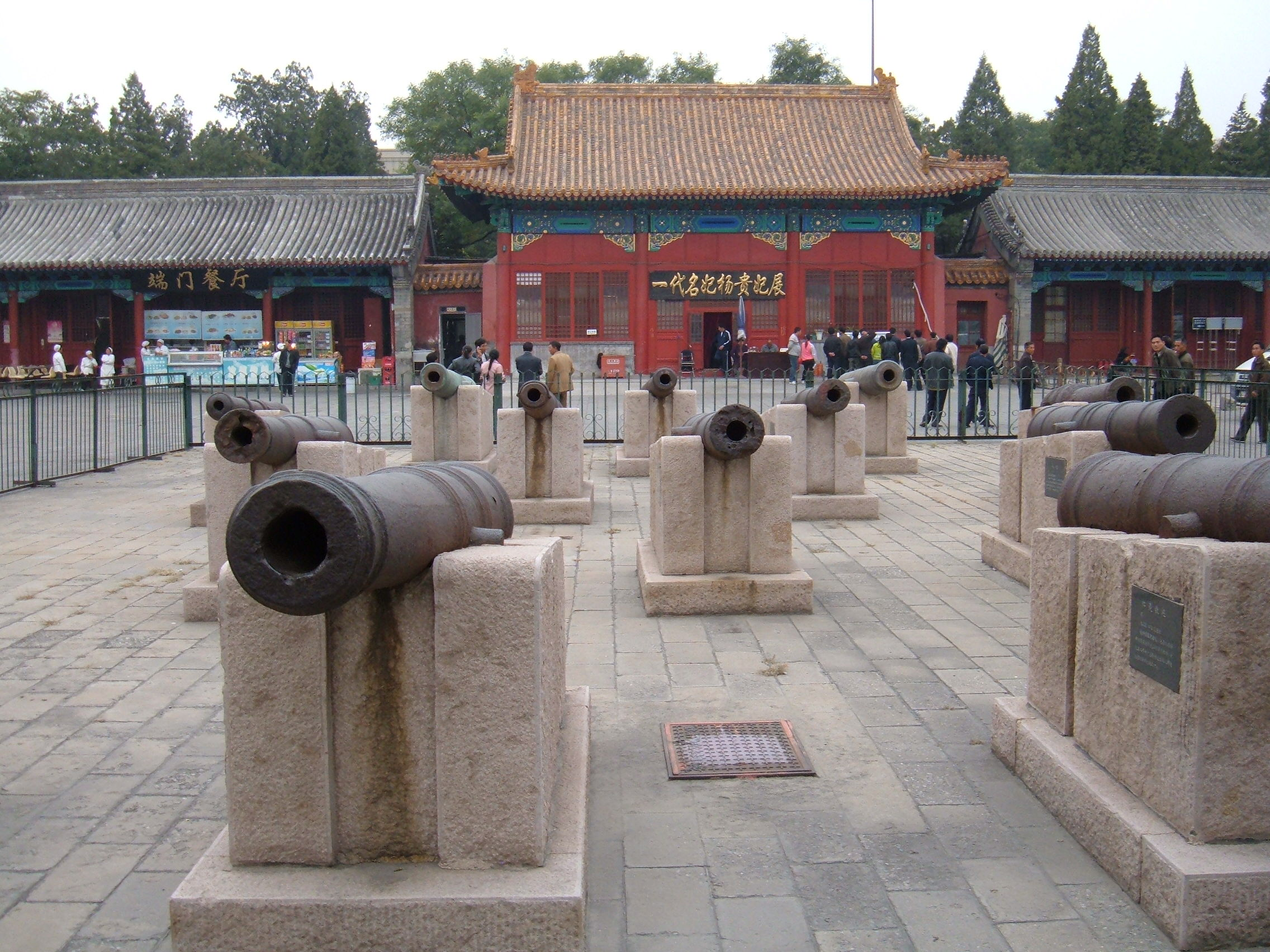 Modern cannon located in a courtyard of the Forbidden City in Beijing, PRC.